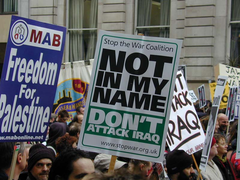 Not-in-my-name banner, close.